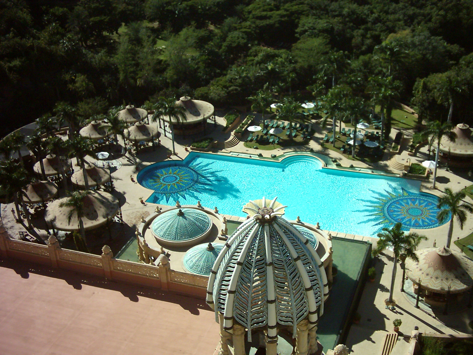 Sun City